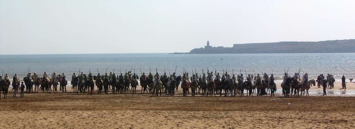 Berber horsemen preparing for the fantasia ceremony on the beach of Essaouira, Morocco